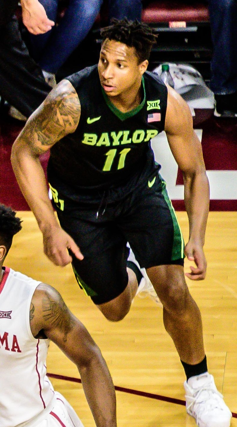 Oklahoma vs. Baylor basketball in January 2018